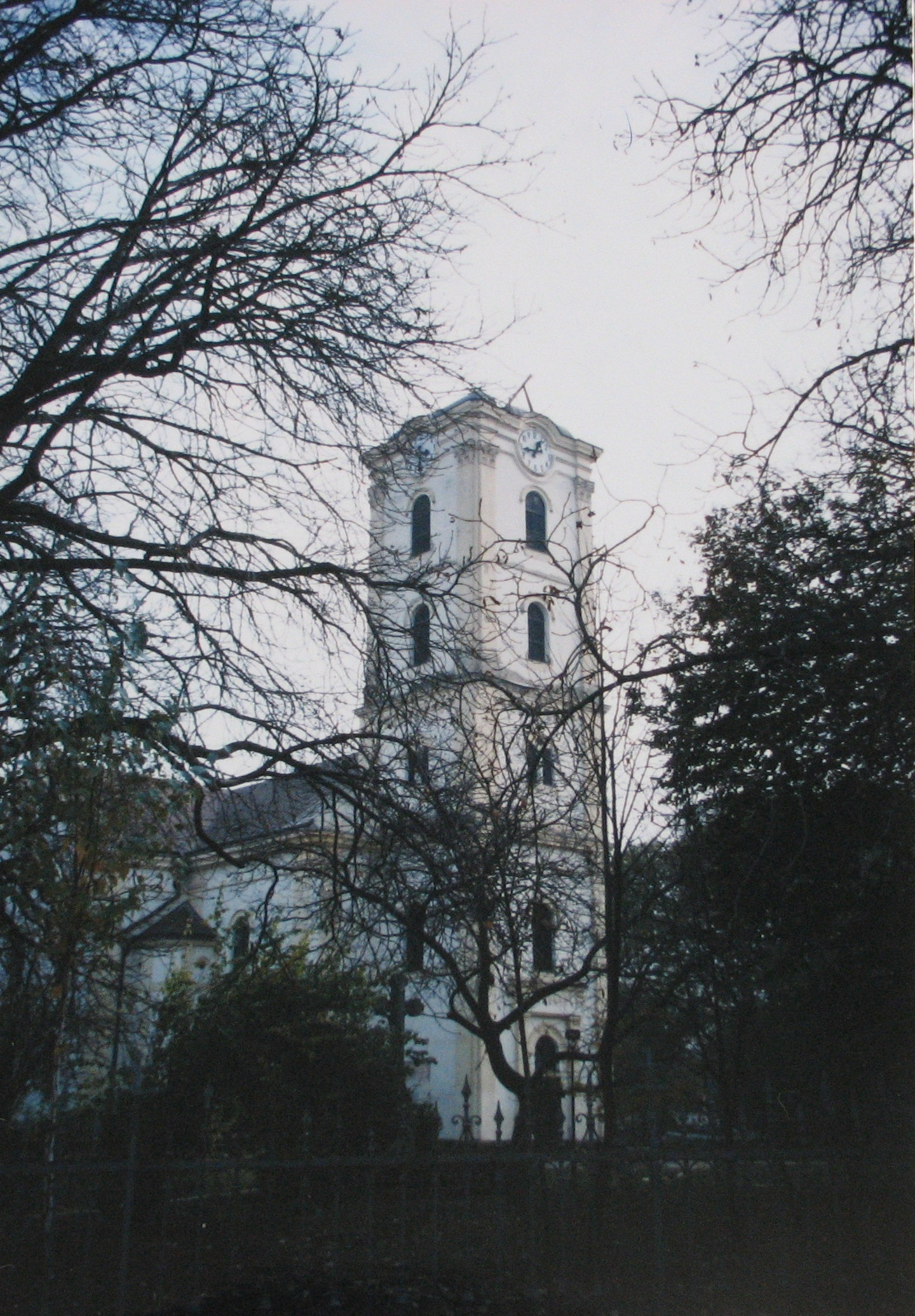 The picture of the Greek Catholic Cathedral of Hajdúdorog, Hungary during the renovations started in 1999. The roof was changed by 2000.